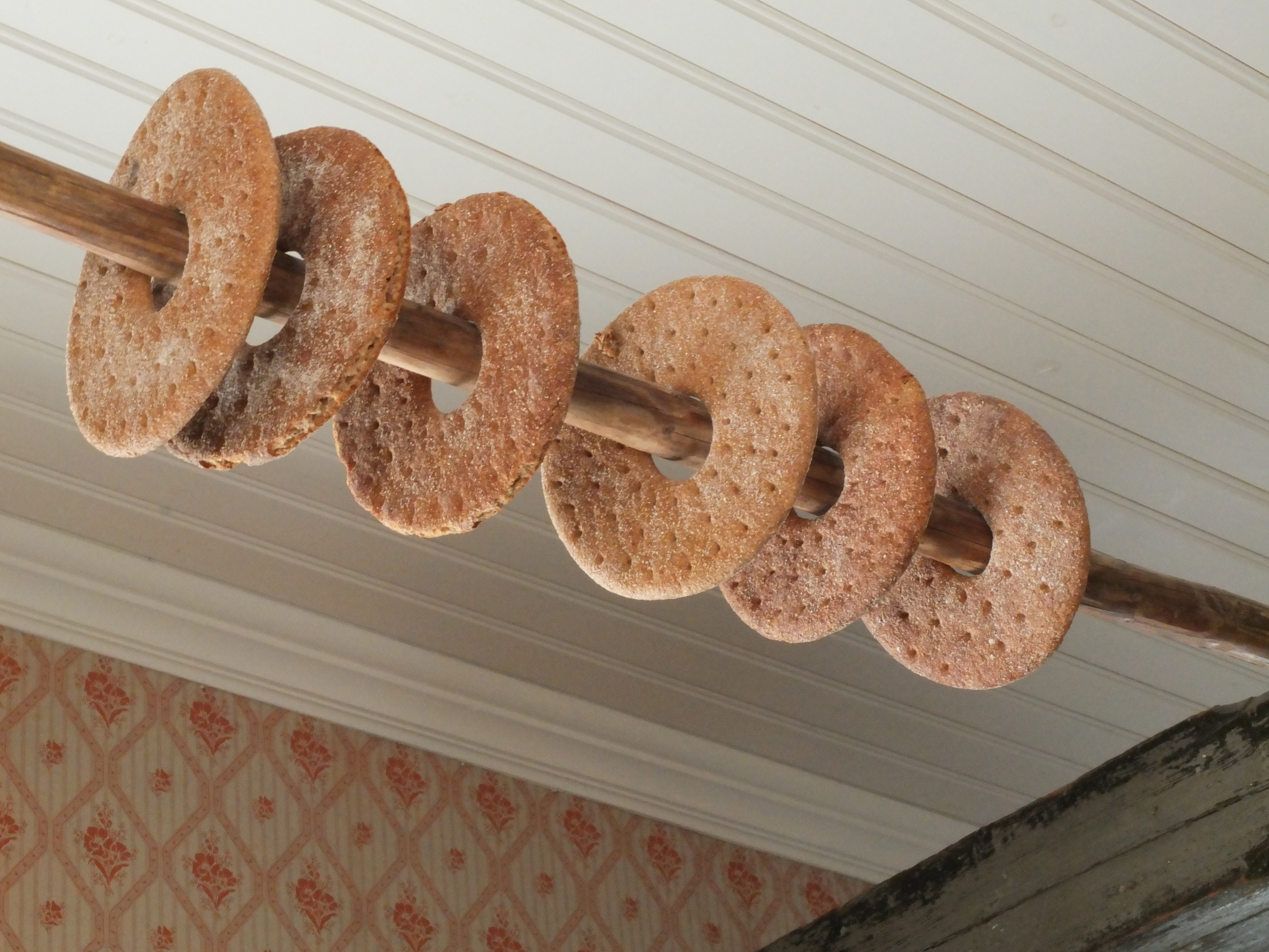 Traditional way to store bread in an Ostrobothnian farmhouse, hanging from a pole in the ceiling. Emigration Museum (Siirtolaisuusmuseo), Hakala house, Kalajärvi, Peräseinäjoki, Seinäjoki, Finland.